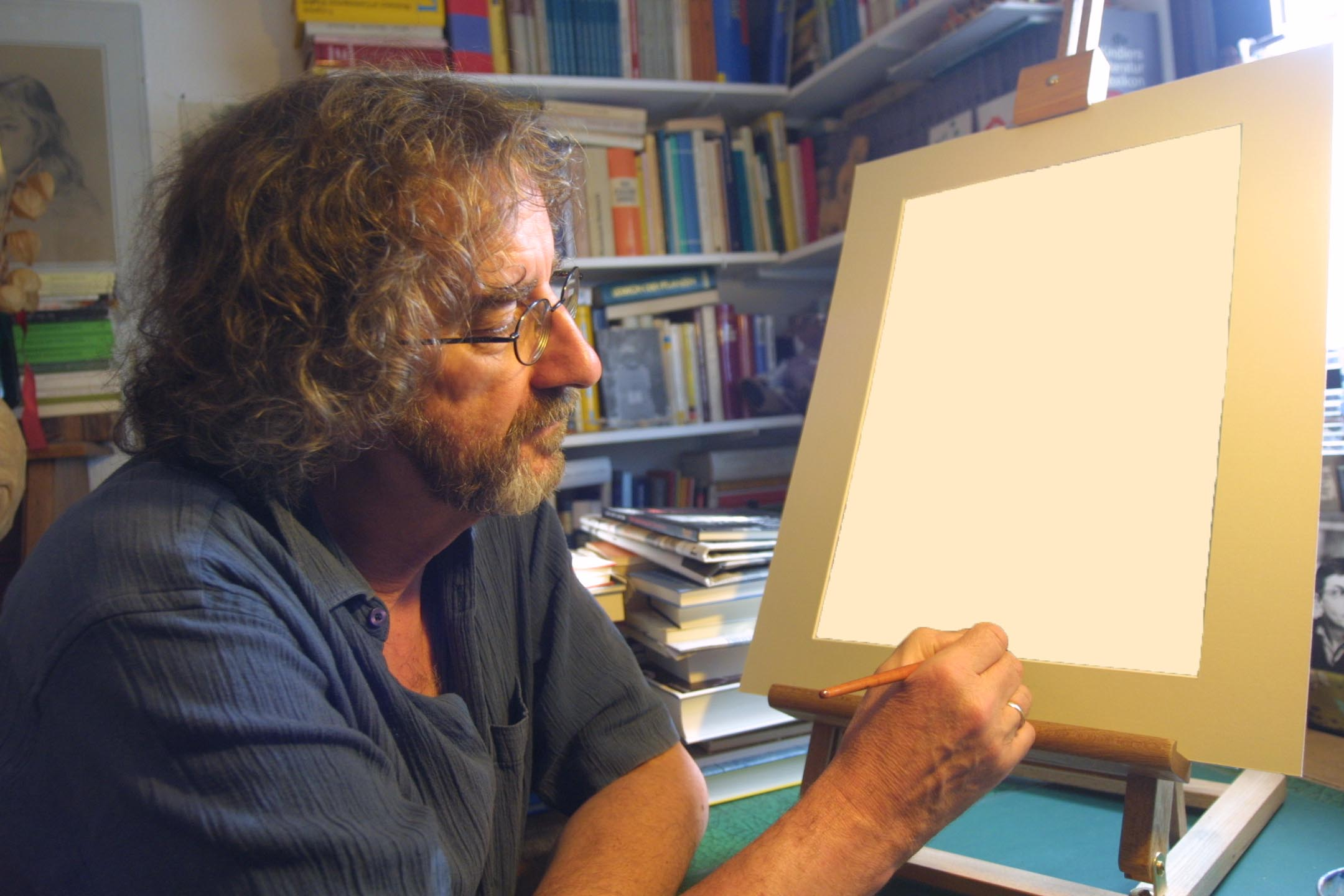 Armin Peter Faust painting a portrait.